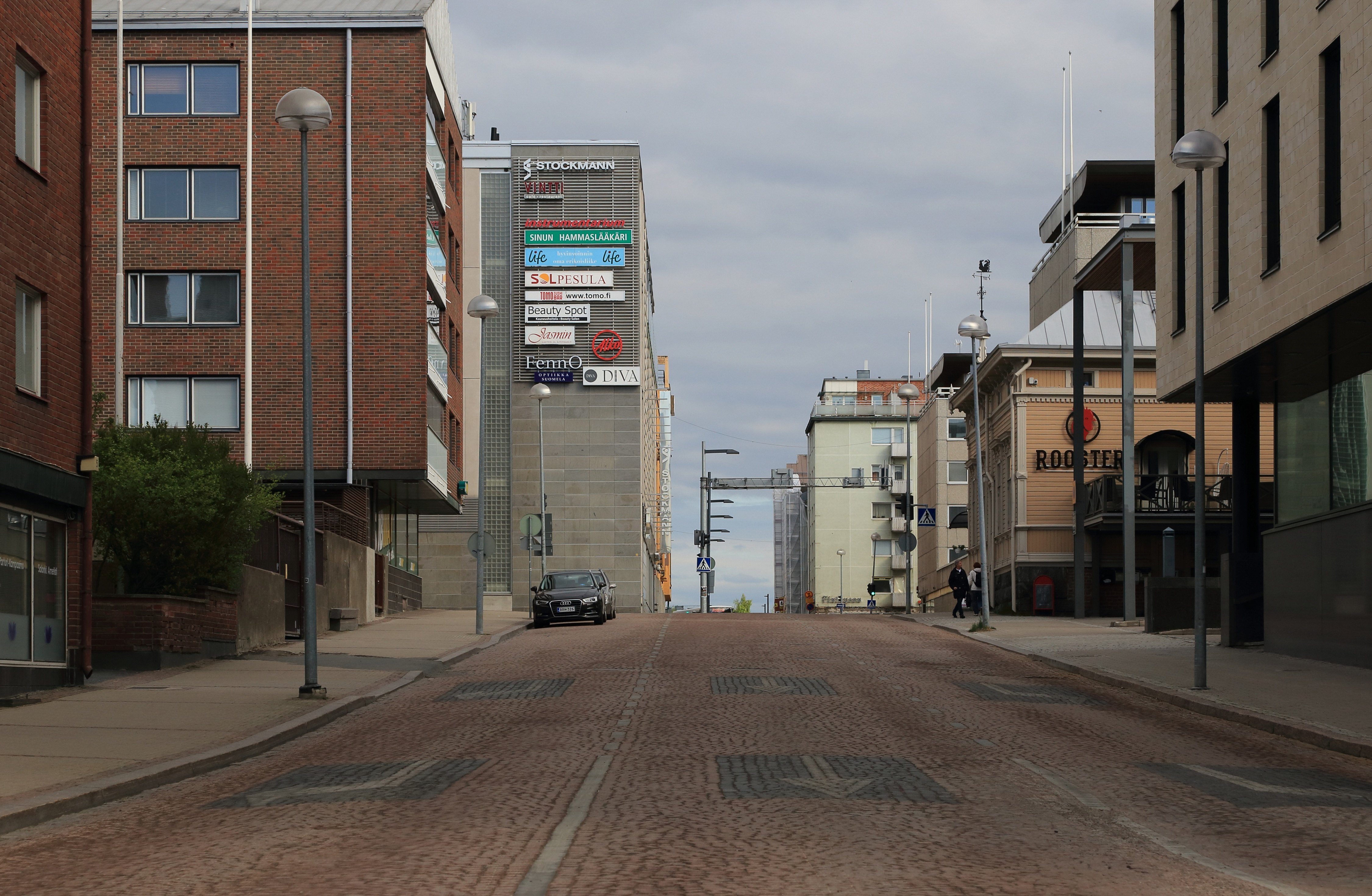 The Saaristonkatu street in Oulu.